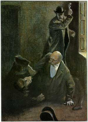 Arthur Conan Doyle, "The Adventure of the Empty House" (1903), Illustration by Sidney Paget, in The Strand Magazine. Orginal caption:"He seized Holmes by the throat."